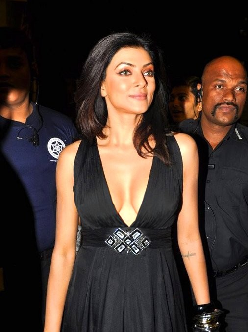 Sushmita Sen arrives at the premiere of Dulha Mil Gaya